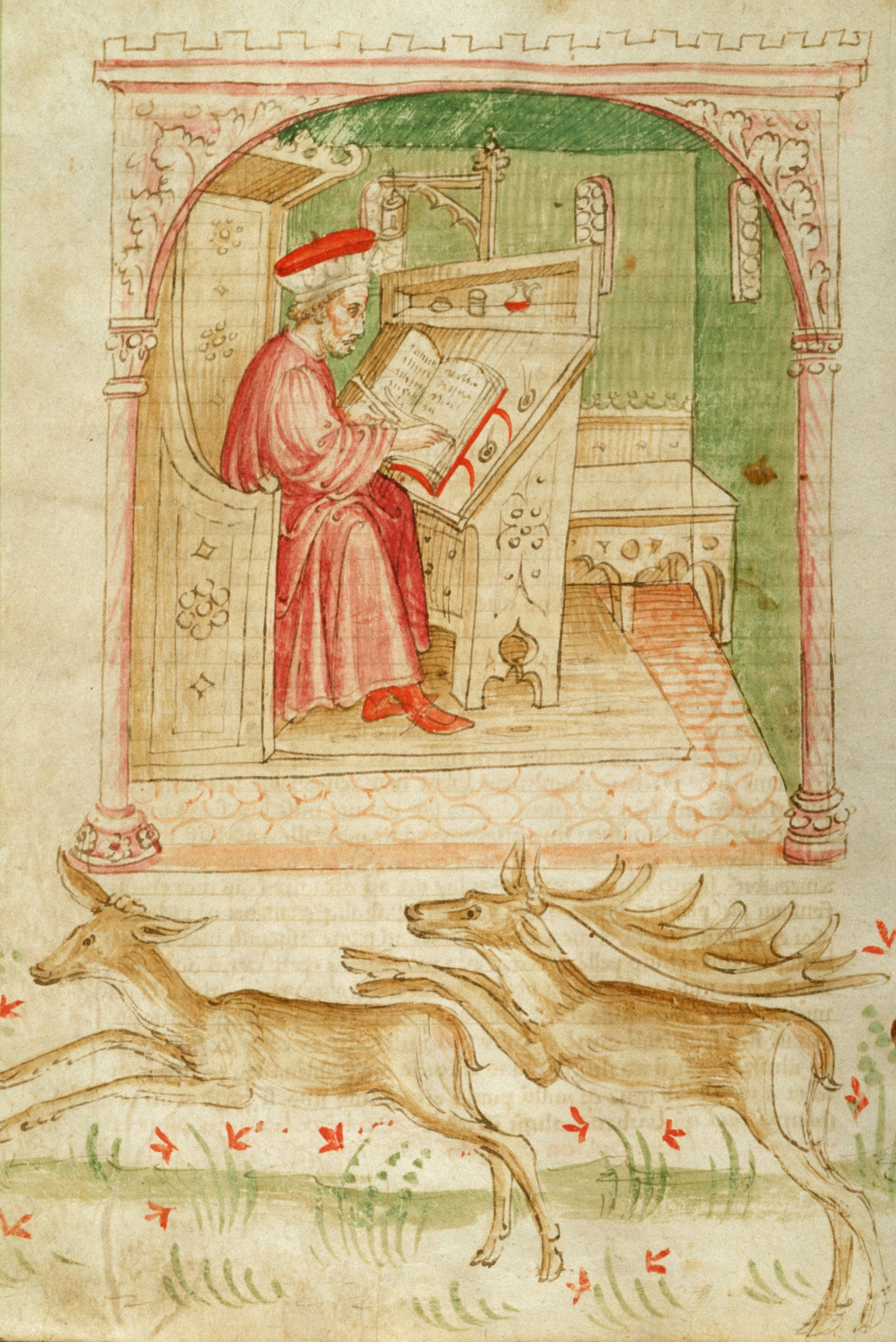 Two images, man writing, above, deer running, below: Man, l., in robe and cap sits at a bench with arms and roof facing slanted desk or book stand, writes in book with r. hand, holds scraper in l. hand. Quills appear in inkwells in r. end of desk. Shelf at toop of dest holds ink, writing equipment. Back wall holds lamp on armature, narrow bottleglass window, supports low bench. Second window pierces side wall to r. Arch supported on classical columns frames scene. Below, two deer (family Cervidae) appear in leaping run to the l., front legs in the air. Second deer, r., apparently male, carries long, heavy antlers, has white rump. Adjacent text: Sextus Placitus' Liber medicinae ex animalibus.